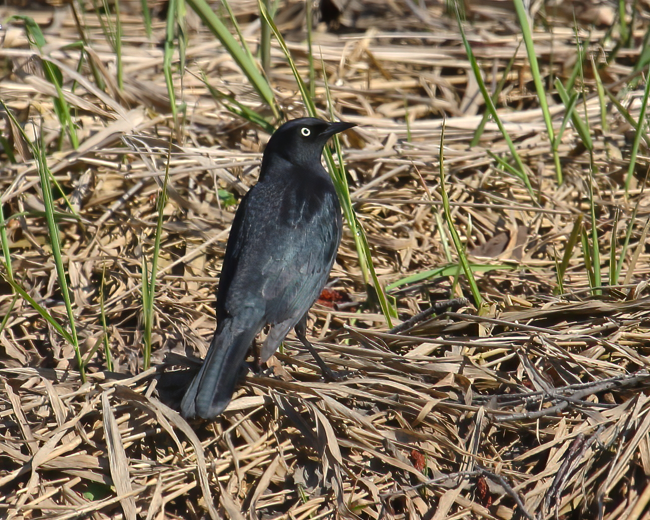 Rusty Blackbird (Euphagus carolinus), male, alternate plumage, Cap Tourmente National Wildlife Area, Quebec, Canada